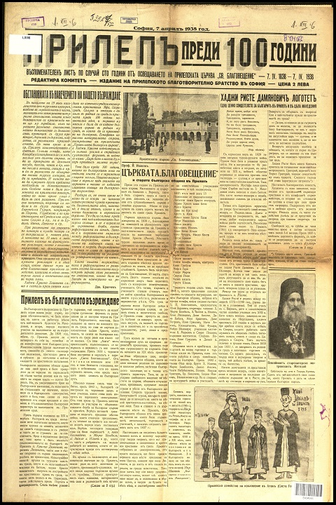 Prilep Predi 100 Godini